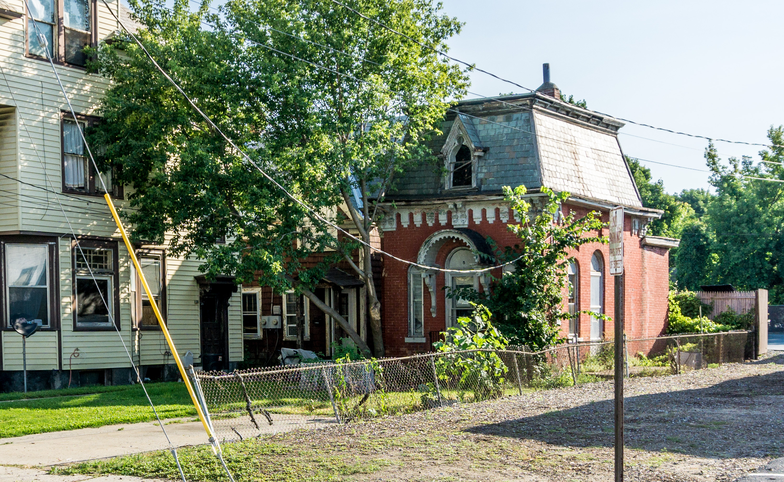 Dr. James Ferguson Office, historic medical office building located at Glens Falls NY. A wider view.